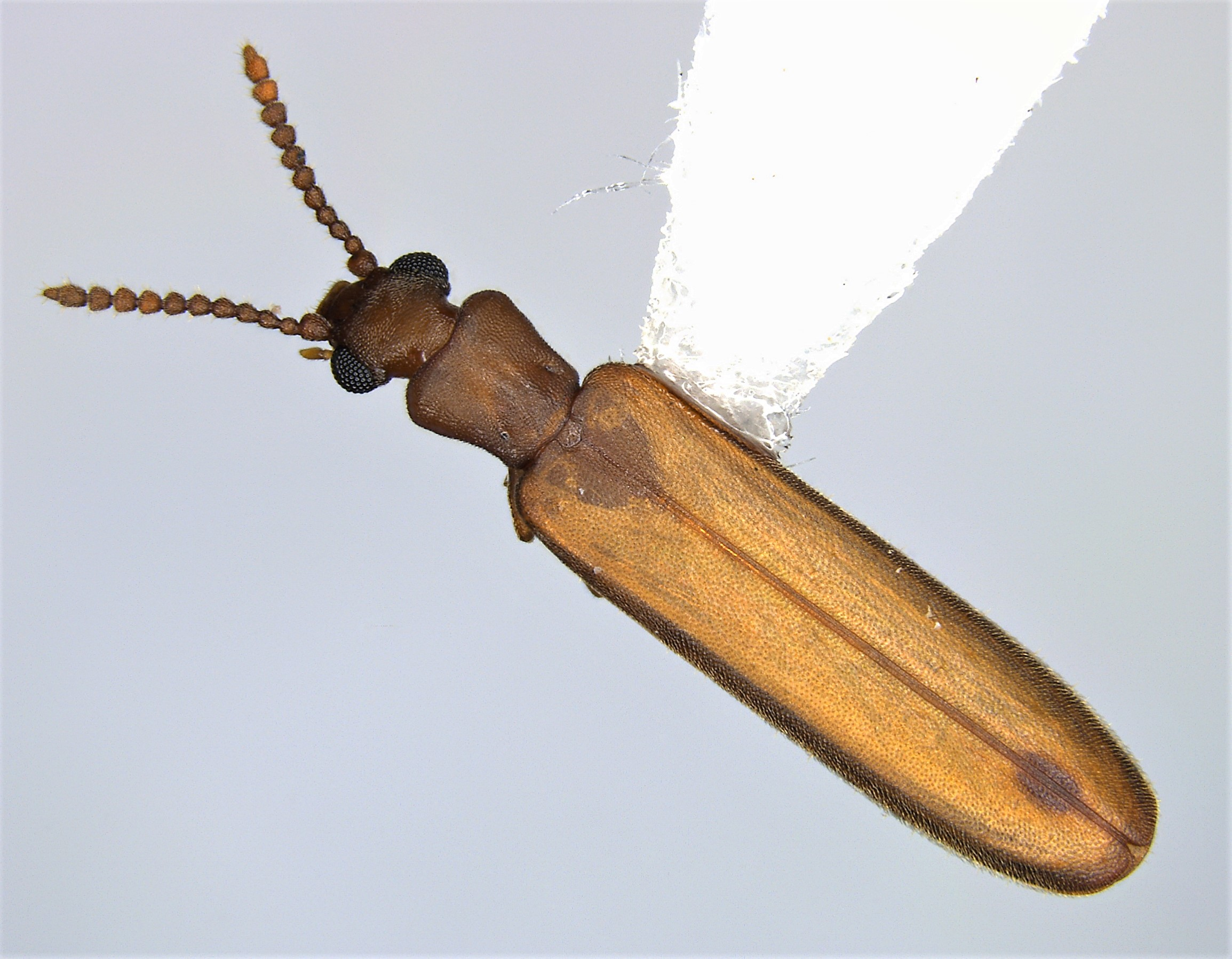 Dorsal view of an adult Hemipeplus chaos beetle collected from furled sabal palmetto fronds in Alachua County, Florida, USA. Length: 4.2 mm, excluding antennae. Distinguished from another common species in the southeastern US, H. marginipennis, by the elytra that cover the end of the abdomen.